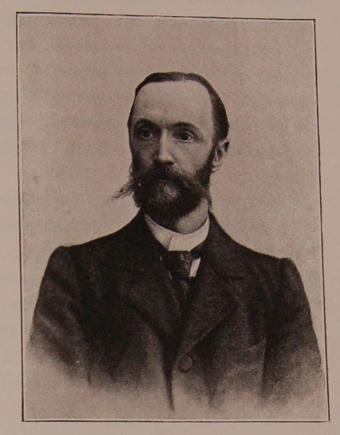 Vladimir Pukhalskii